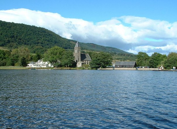 Hotel and Priory from Lake of Menteith